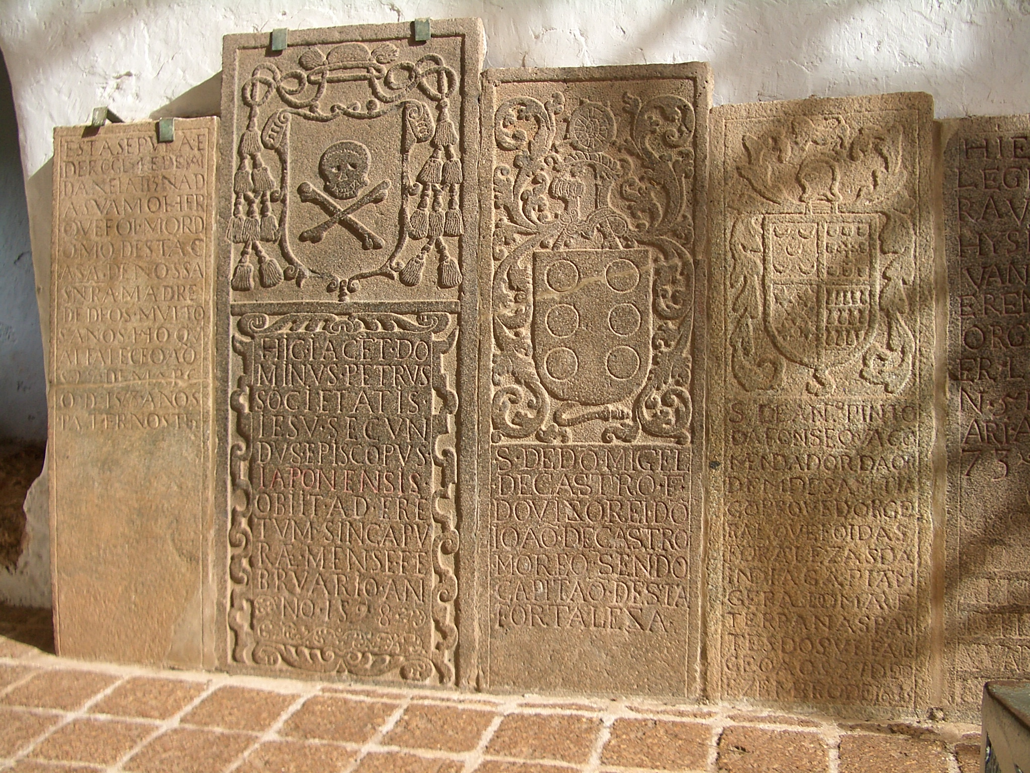 Old Portuguese tombstones in Melaka's ruined St Paul's church. The area is very popular with tourists